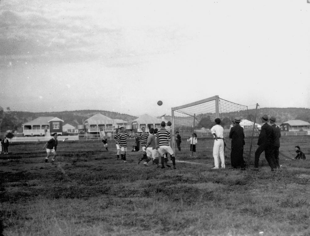 Shot for goal in an association football match played in Brisbane, Australia.